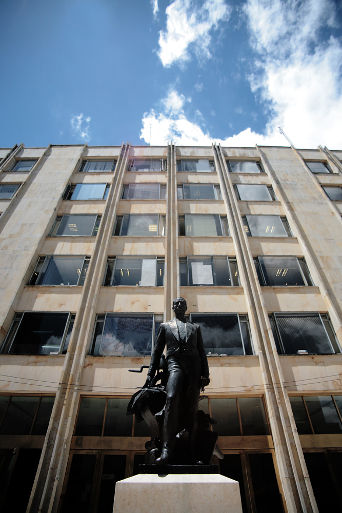 MinTIC Ministerio TIC